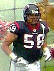 Houston Texans players come out for pre-game intro